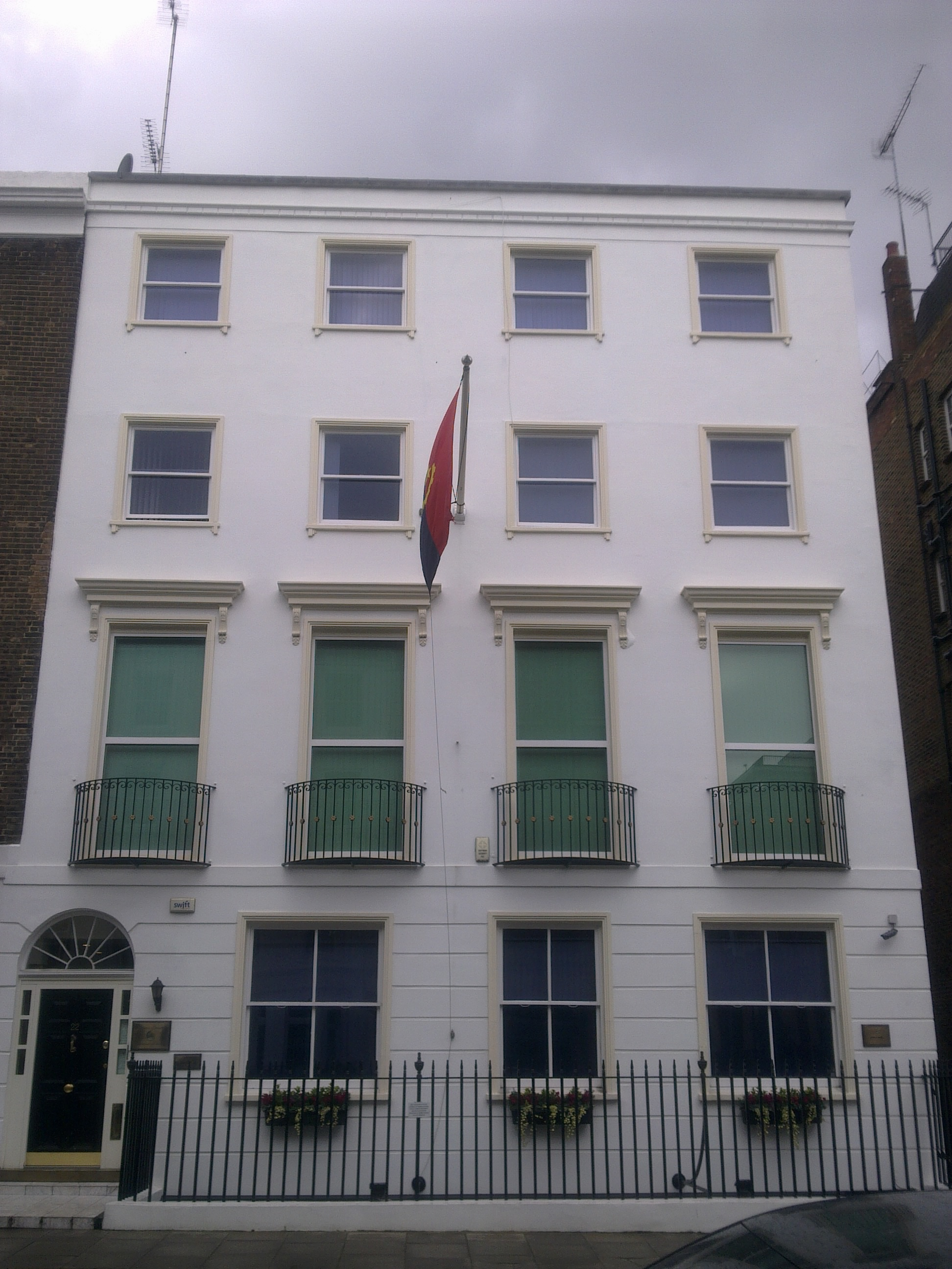 Embassy of Angola in London